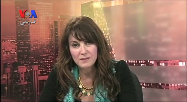 Mary Apick